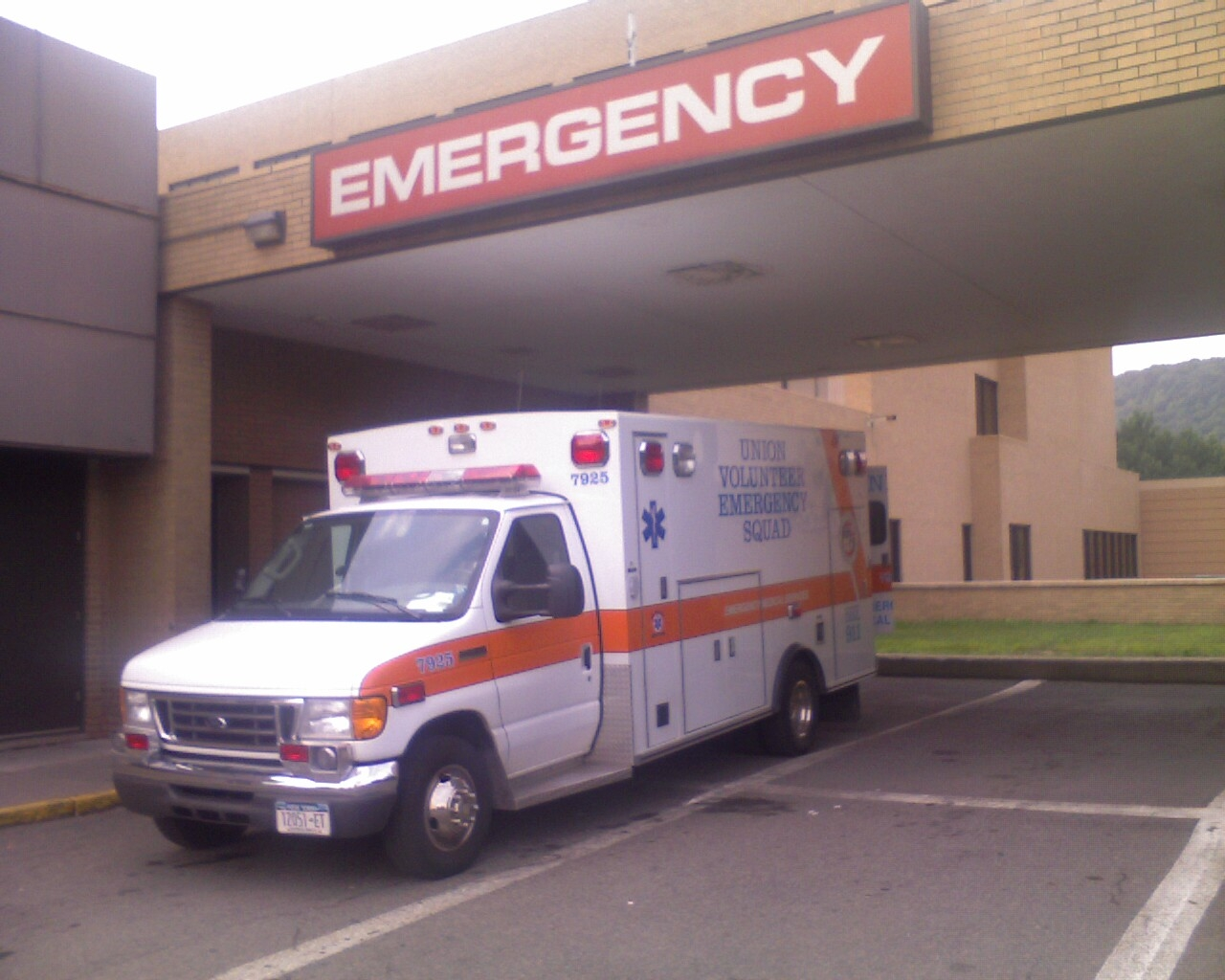 ambulance picture outside a ER